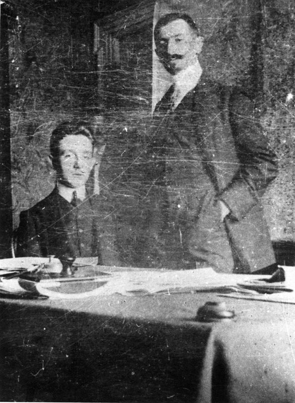 Alexandros_Otonaios_right_Alexandros_Zannas